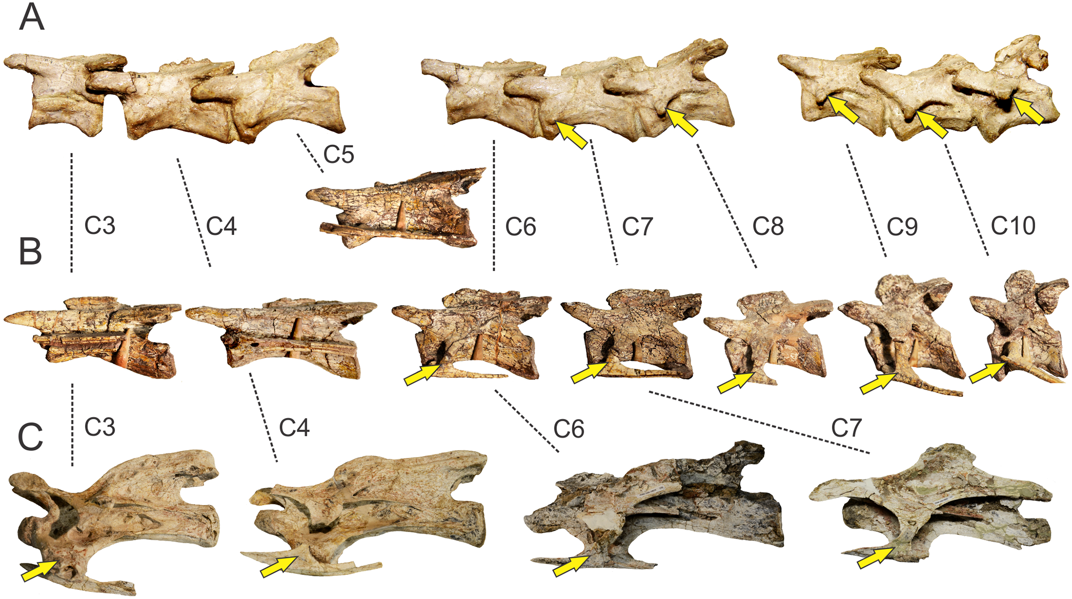 Cervical vertebrae showing putative origin site of Mm. levator scapulae (if present) and serratus profundus in Pantydraco caducus (NHMUK RU P24) (A); Plateosaurus engelhardti (GPIT1) (B); Erketu ellisoni (IGM 100/1803; C3 and C4 reversed from right) (C). The arrow denotes the lateral surface of the diapophysis-rib complex where Mm. levator scapulae and serratus profundus would have been attached. Not to scale.